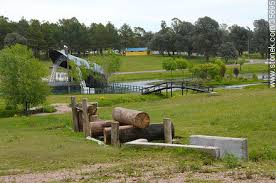 Parque de la hispanidad durazno